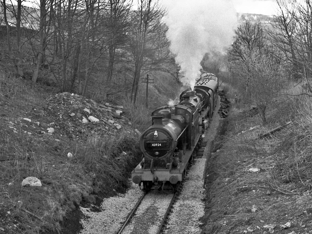 British Railways former Midland Railway Fowler 4F 0-6-0 locomotive number 43924 of Manningham MPD piloting British Railways Riddles 'Standard' 4MT 4-6-0 locomotive number 75078 of Basingstoke MPD approach Ebor Lane road over rail bridge, Haworth on the Keighley and Worth Valley Railway with the 16:40 Keighley to Oxenhope. Sunday 20th March 1983